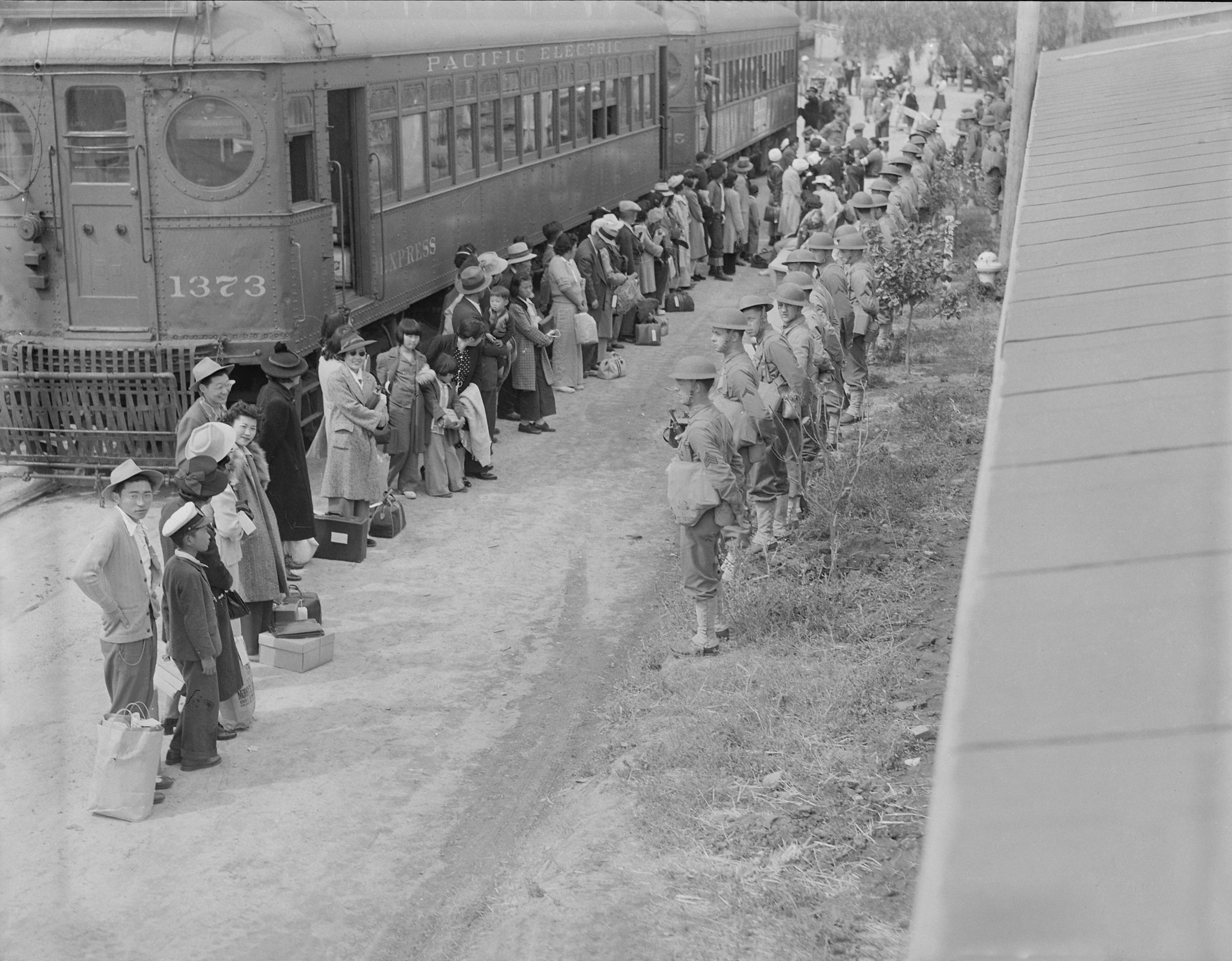 Scope and content: The full caption for this photograph reads: Arcadia, California. Persons of Japanese ancestry arrive at the Santa Anita Assembly center from San Pedro, California. Evacuees lived at this center at the Santa Anita race track before being moved inland to relocation centers.